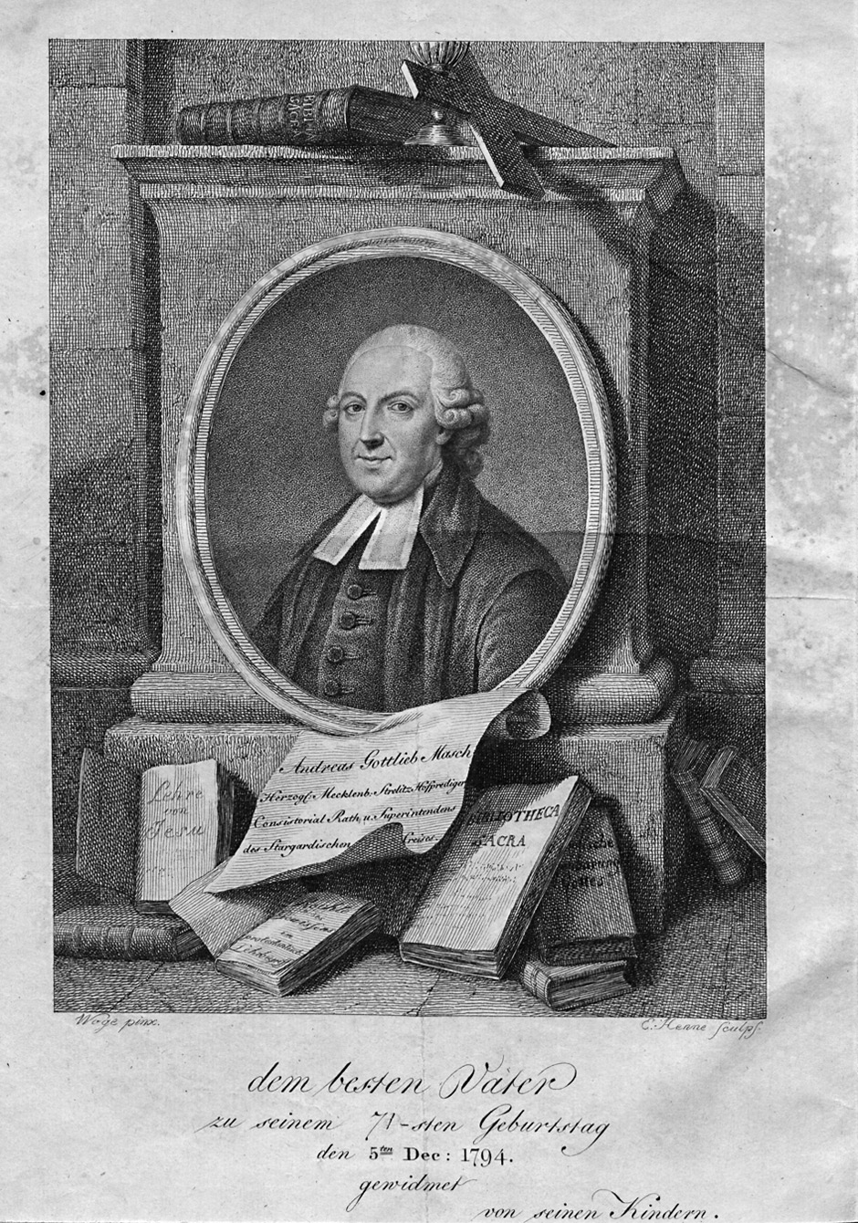 Portrait of de: Andreas Gottlieb Masch, 1794